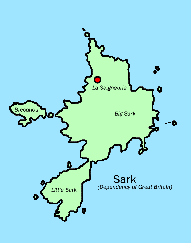 Map of the island of Sark.